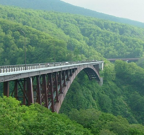 The Jogakura Bridge in Aomori, Japan